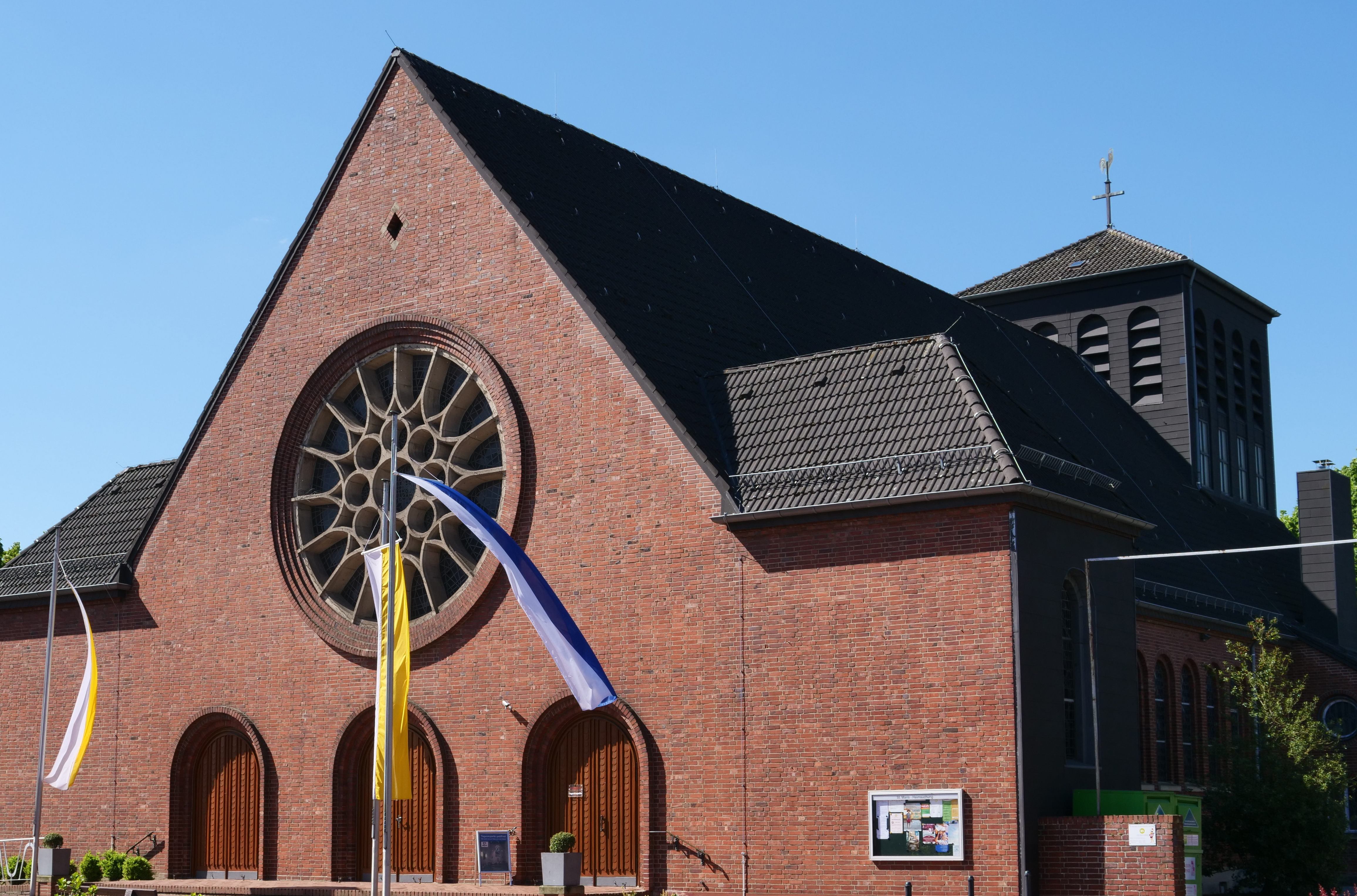 The Visitation Church in Herzogenrath, district Kämpchen in Kohlscheid; view from north-west